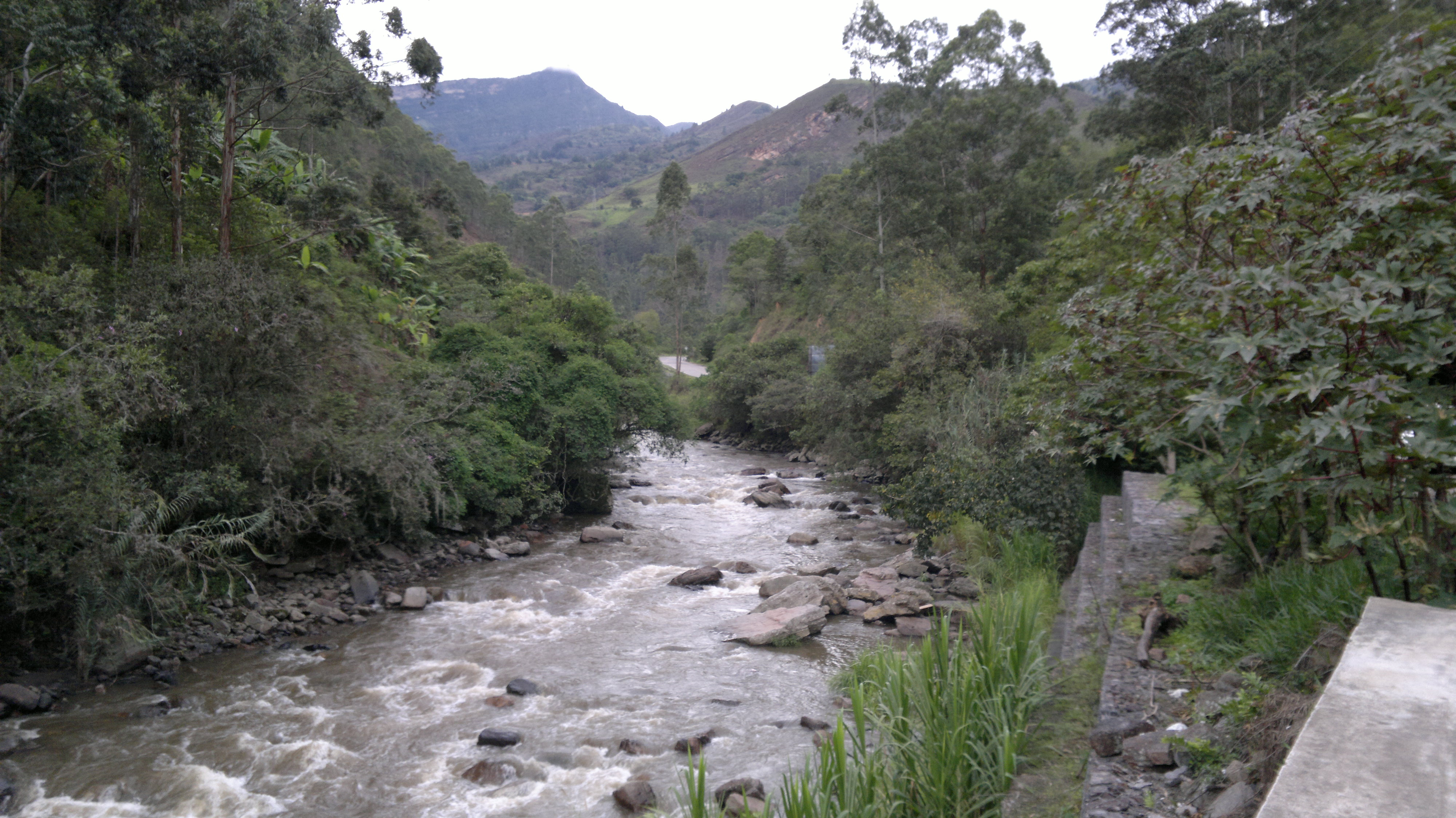 Photo of river Aguacia in Manta (Colombia)